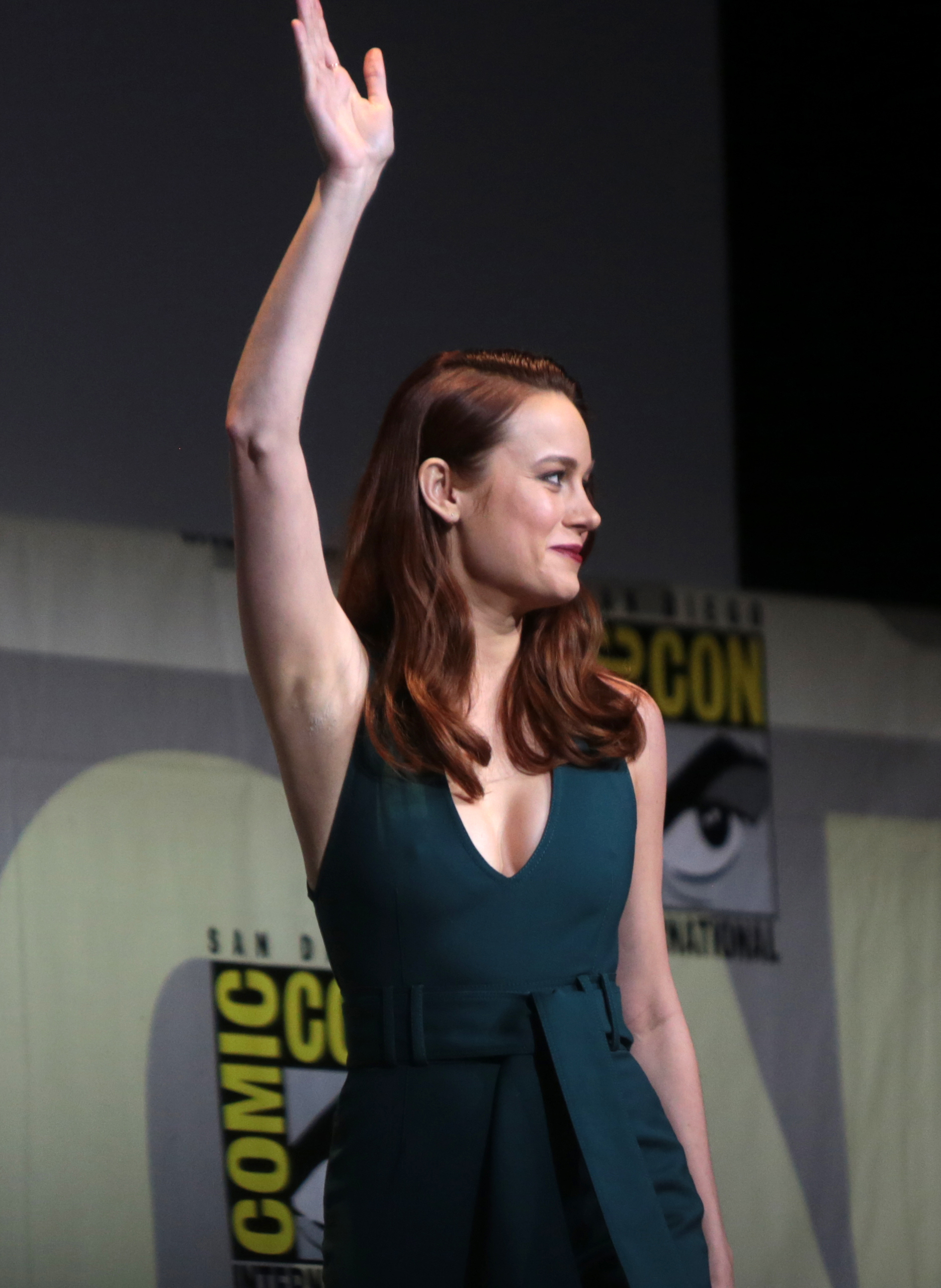 Brie Larson speaking at the 2016 San Diego Comic Con International, for Captain Marvel, at the San Diego Convention Center in San Diego, California.